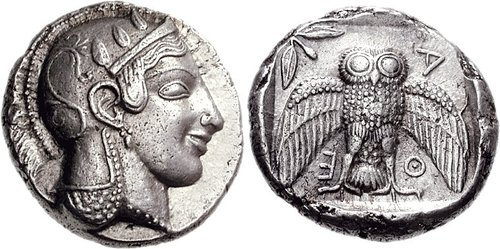 Athens, 467-465 BC. Silver Dekadrachm (43.38 g). Head of Athena right, wearing single-pendant earring, necklace, and crested Attic helmet decorated with three olive leaves over visor and a spiral palmette on the bowl / ΑΘΕ (ΑΘΗΝΑΙΩΝ - of Athenians), owl standing facing, wings spread; olive sprig and crescent to upper left; all within incuse square.